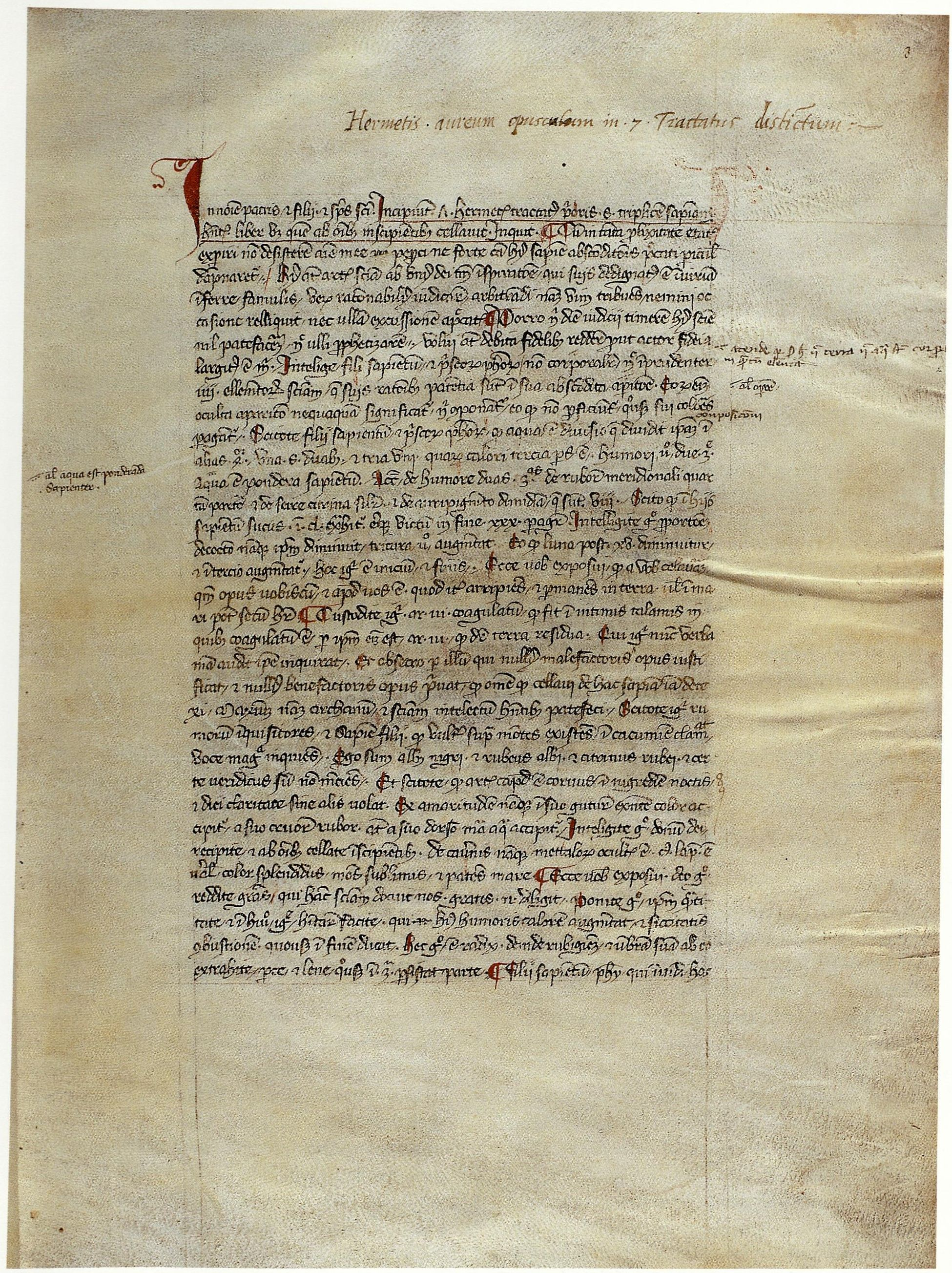 The beginning of the alchemistical Septem tractatus in operatione solis et lunae ascribed to Hermes Trismegistus. Medieval translation from Arabic into Latin. Manuscript Venice, Biblioteca Nazionale Marciana, Lat. Z. 324 (= 1938), fol. 3r.